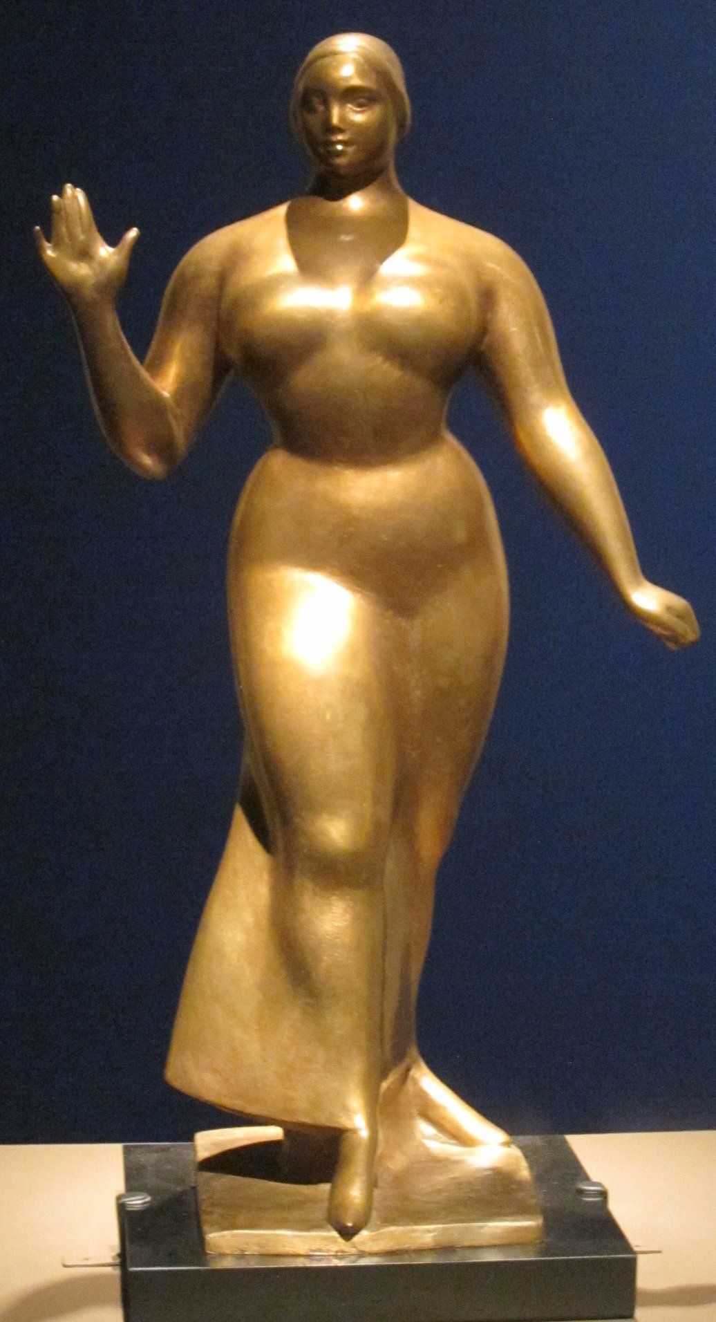 Walking Woman, bronze sculpture by Gaston Lachaise, 1922, Honolulu Museum of Art